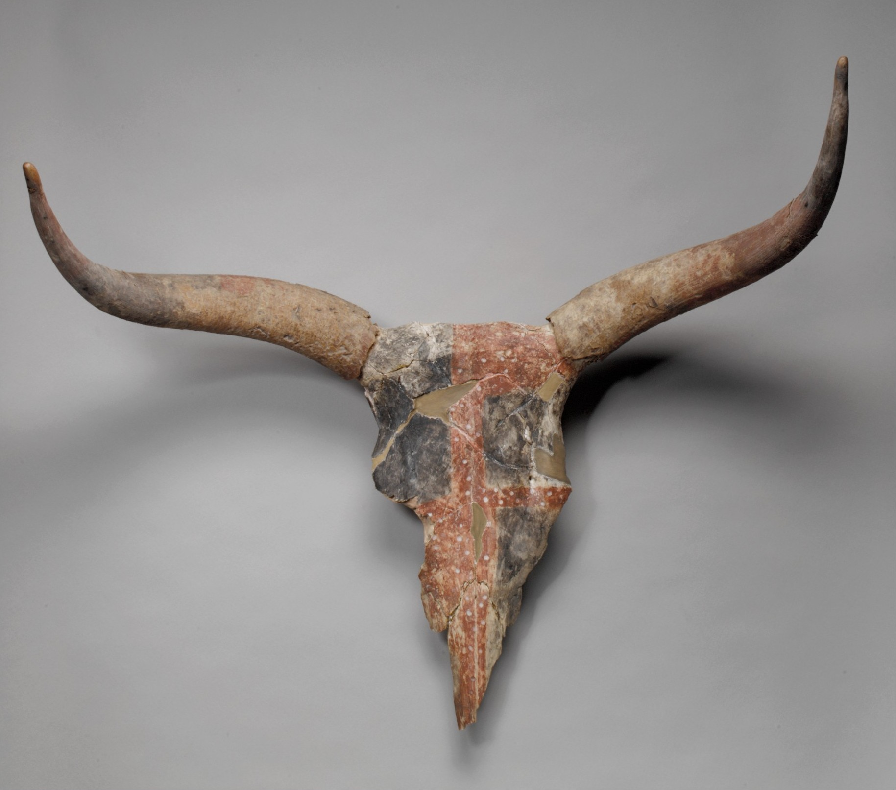 Bucranium, horns, antlers, pan grave, Medjayu